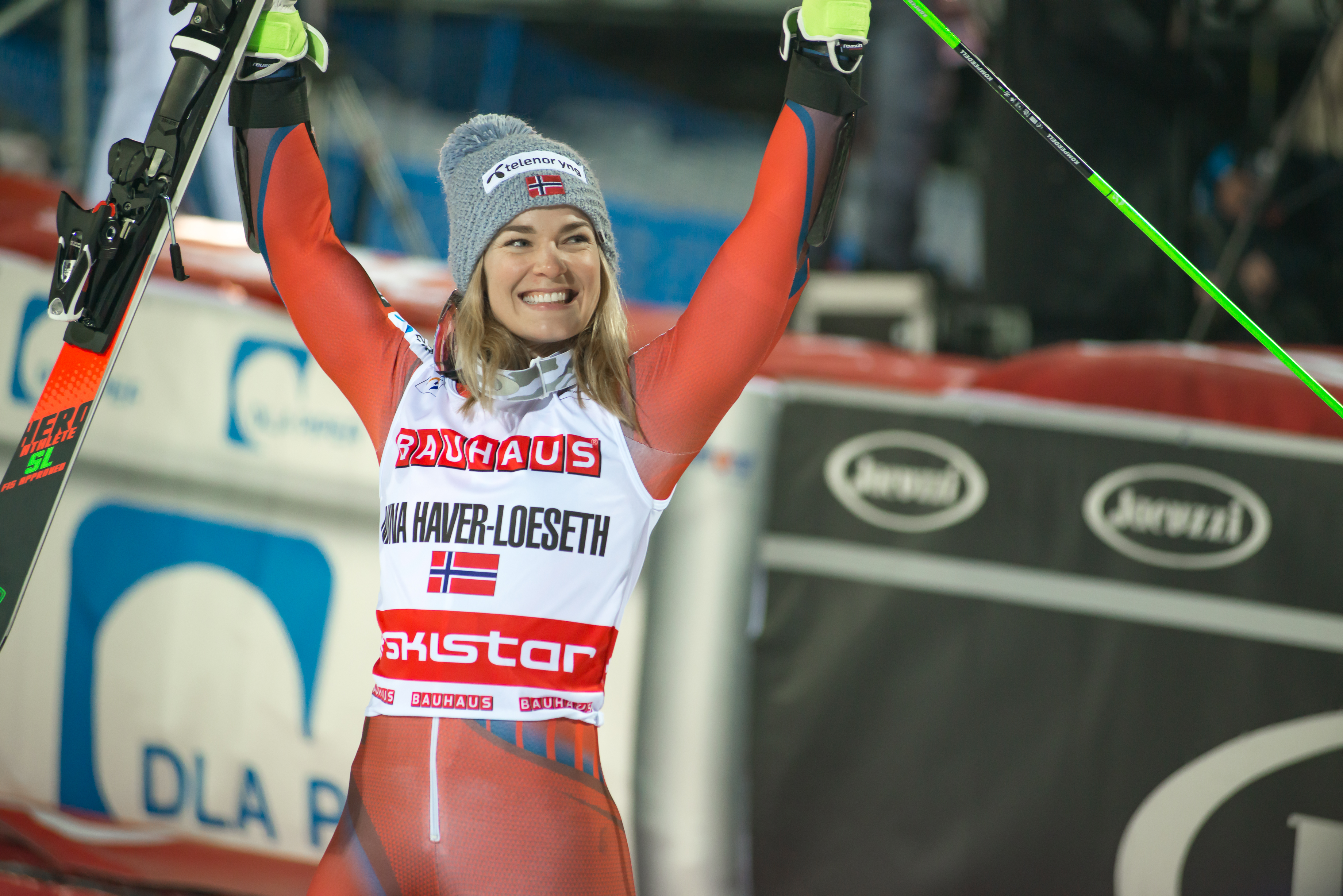 Nina Haver-Loeseth celebrates Photo by Roland Osbeck